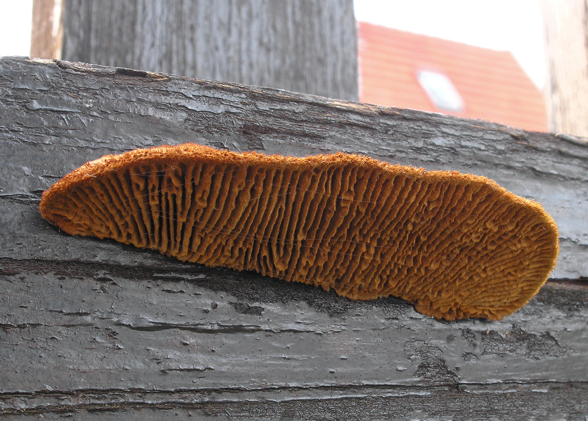 Conifer Mazegill (Gloeophyllum sepiarium)